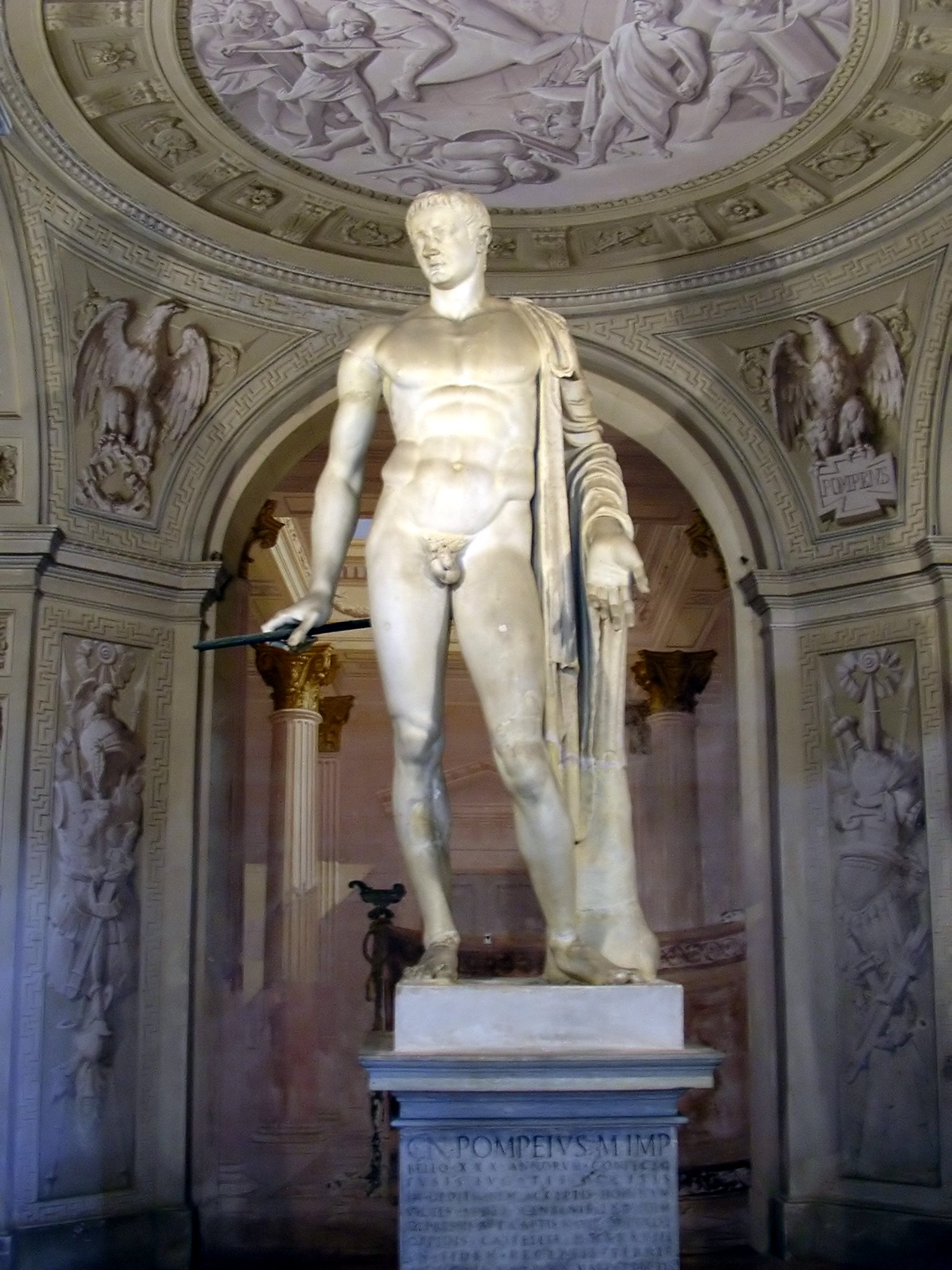 Roman statue of Pompey. It is now in Villa Arconati a Castellazzo di Bollate (Milan, Italy). It was brought there from Rome in 1627 by Galeazzo Arconati. The left hand and the metal parts are not original, but later additions and repairs. It is handed down that Julius Caesar was killed at the feet of this statue.